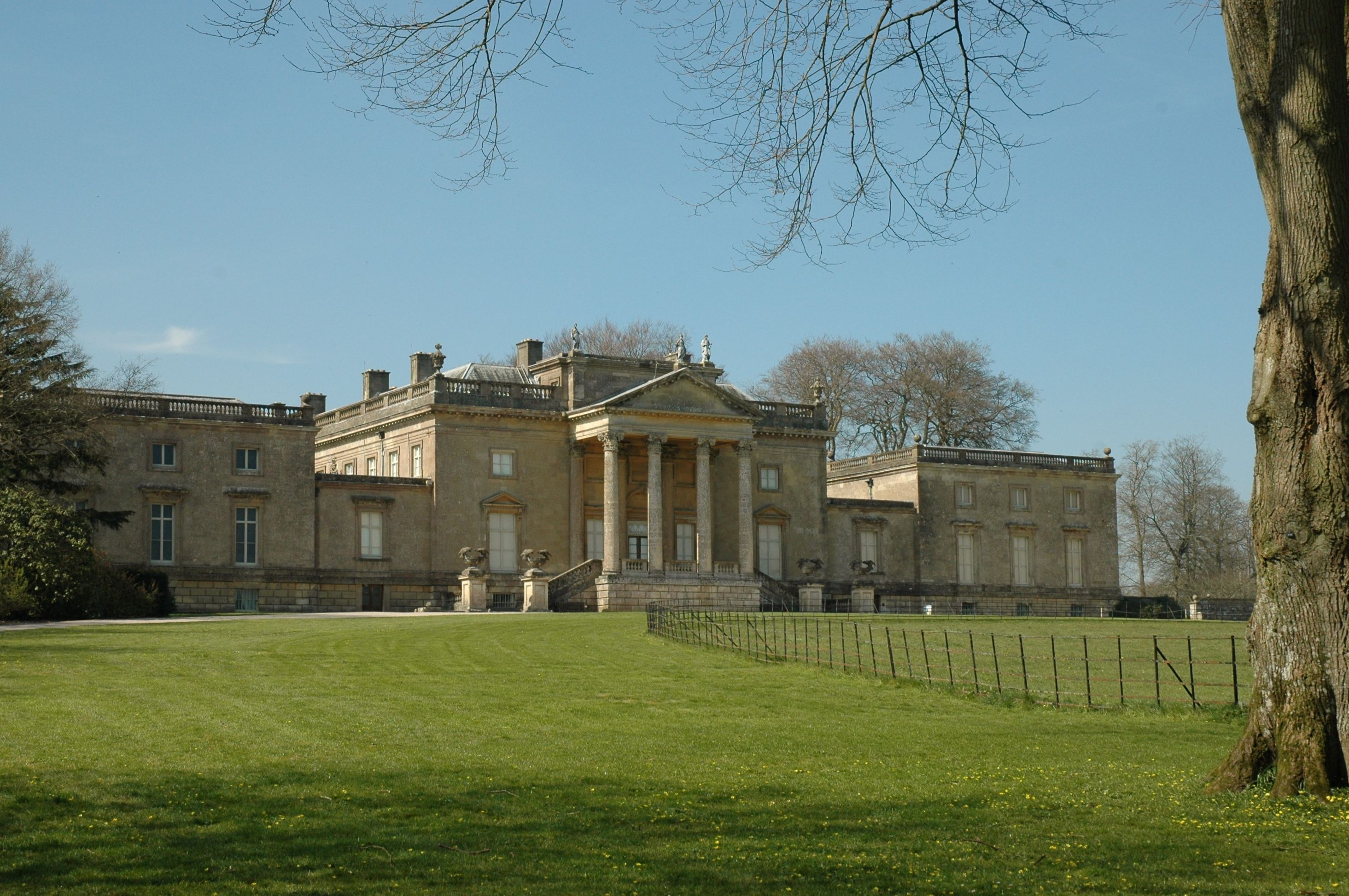 Jardins de Stourhead - Stourhead House